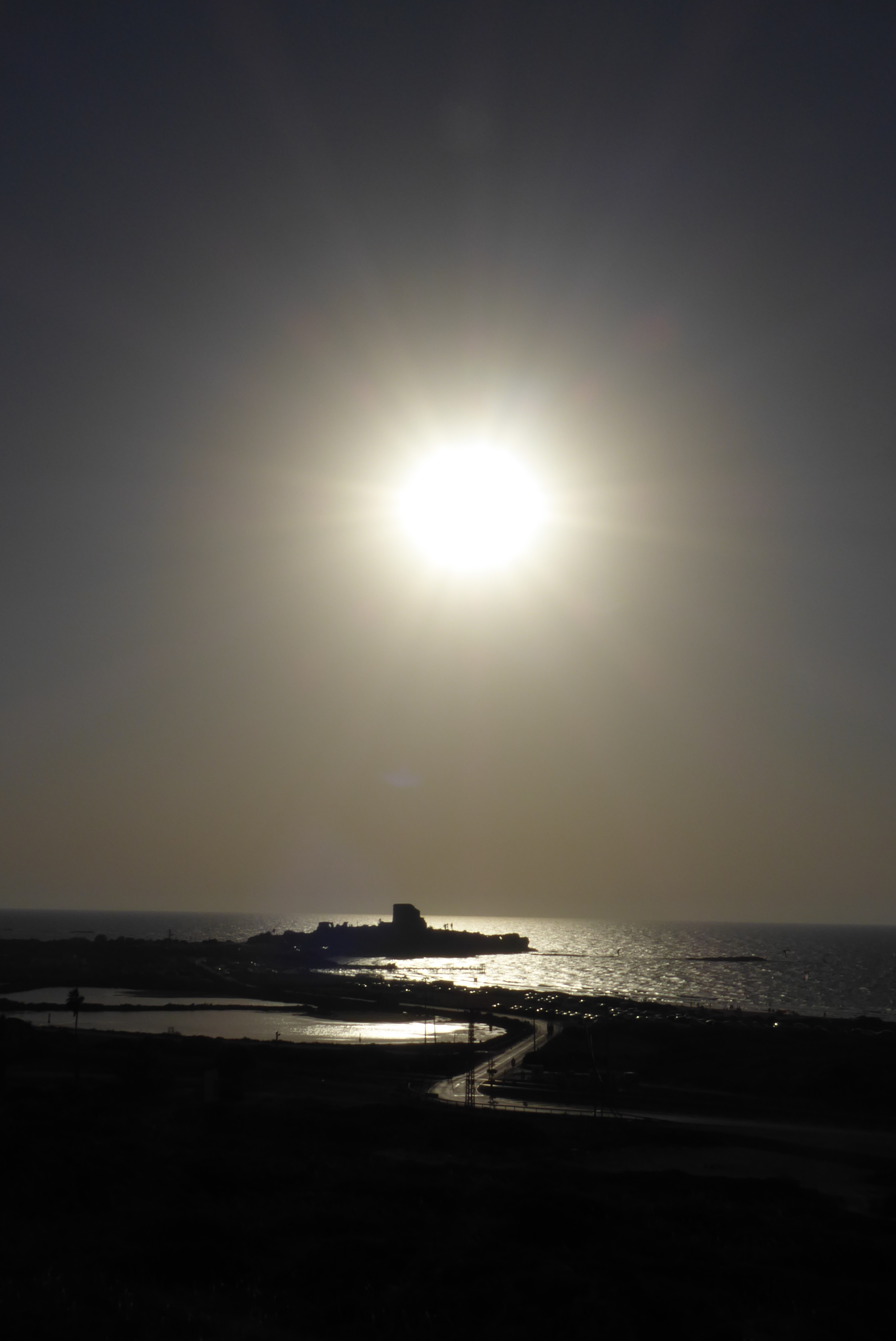 Chateau Pelerin